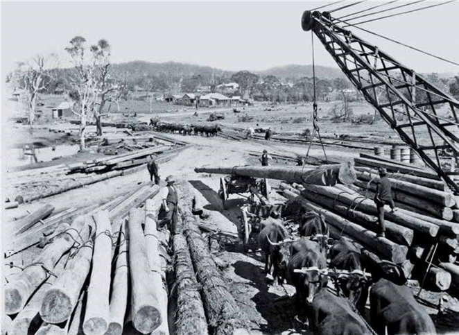 Remnants of tracks of British Australian Tramway, Woolgoolga: Bullock teams with logs and railway sleepers at Woolgoolga jetty crane, 1929 (NSW State Library collection)